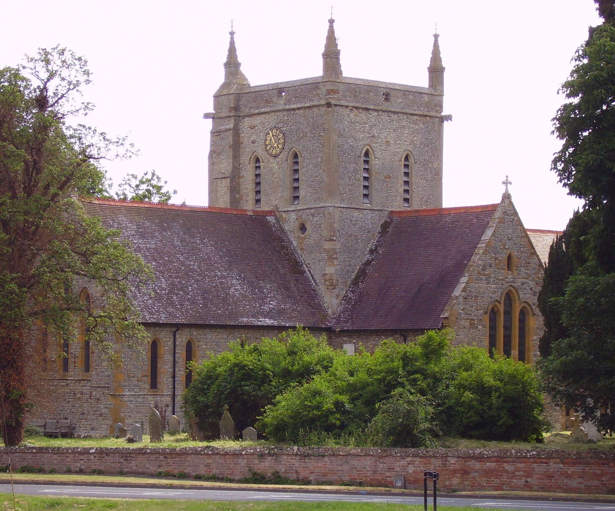 St Mary and Holy Cross parish church, Alderminster, Warwickshire